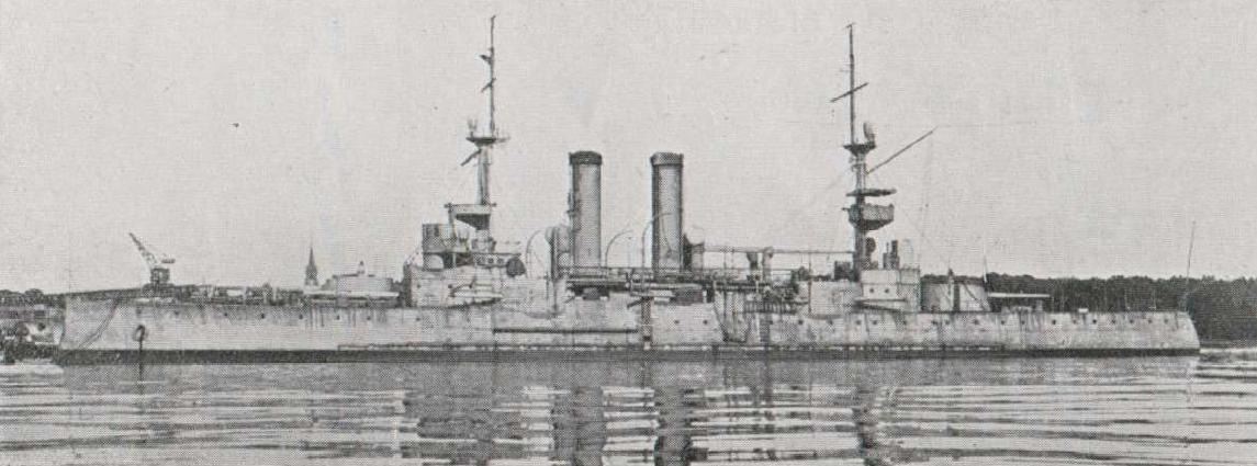 KNMS Norge coastal battleship